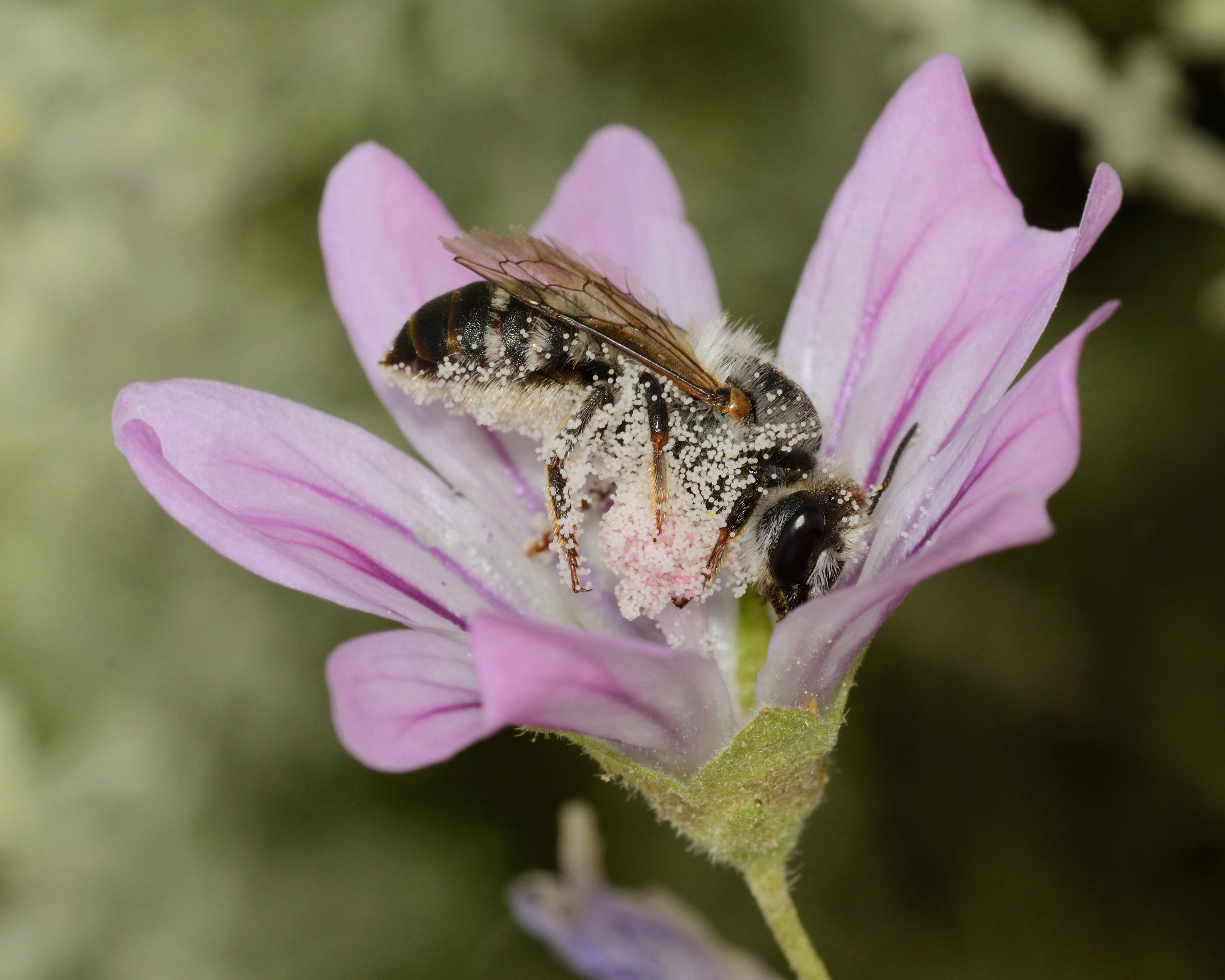 Megachile (Chalicodoma) montenegrensis Dours 1873, female foraging on Malva sylvestris L., Negev Mountains, Israel, April 16, 2014.